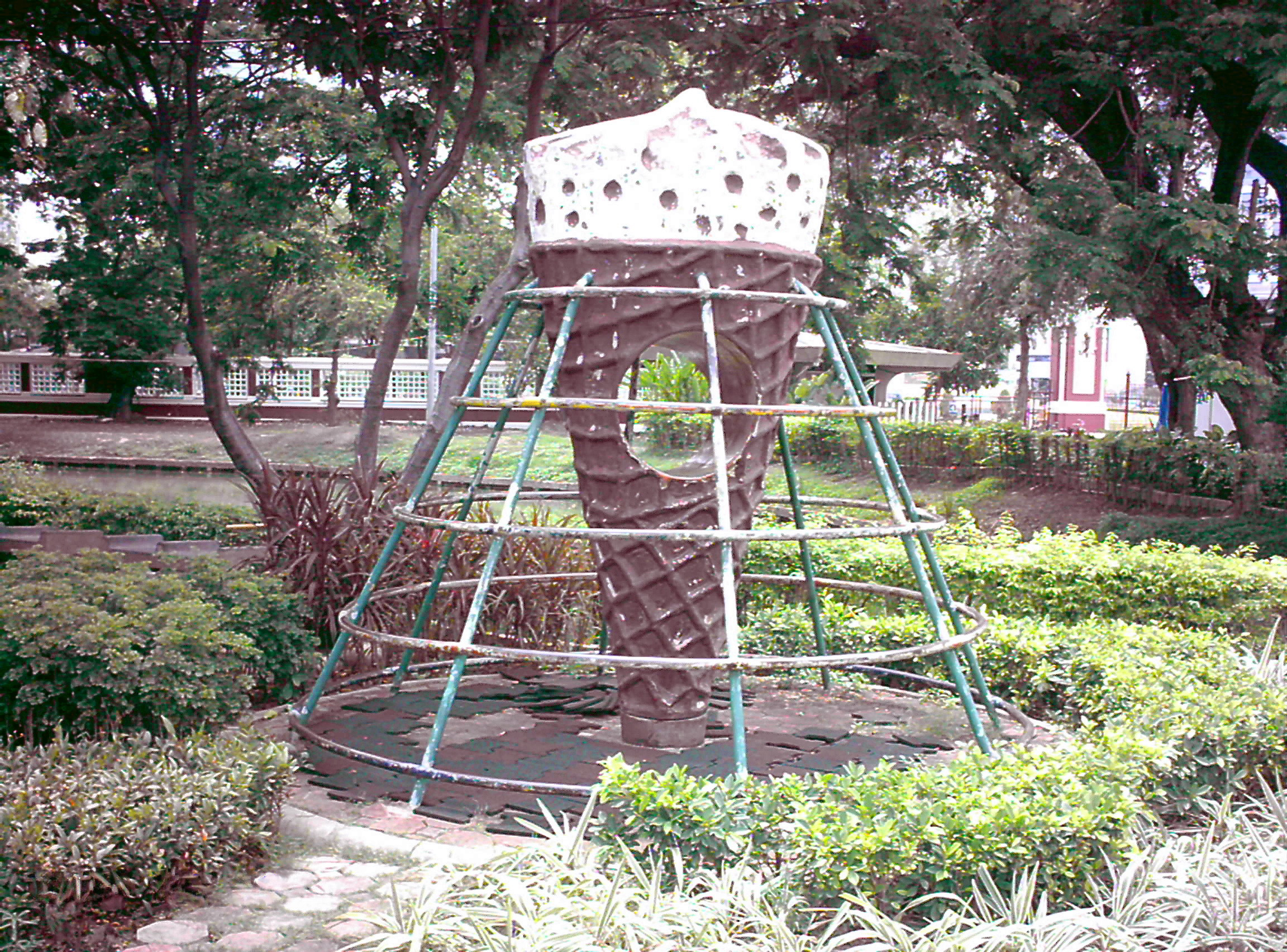 Ice Cream Shelf, Haw Par Playground at Lumpini Park, Bangkok, Thailand. 中文（香港）: 泰國，曼谷，巴吞旺縣，是樂園，虎豹兒童遊樂場，冰琪琳型的攀爬架。